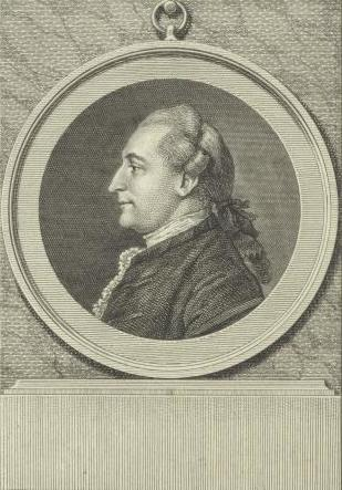 William Henry Drayton (1742-1779). New York Public Library, Emmet Collection of Manuscripts Etc. Relating to American History.